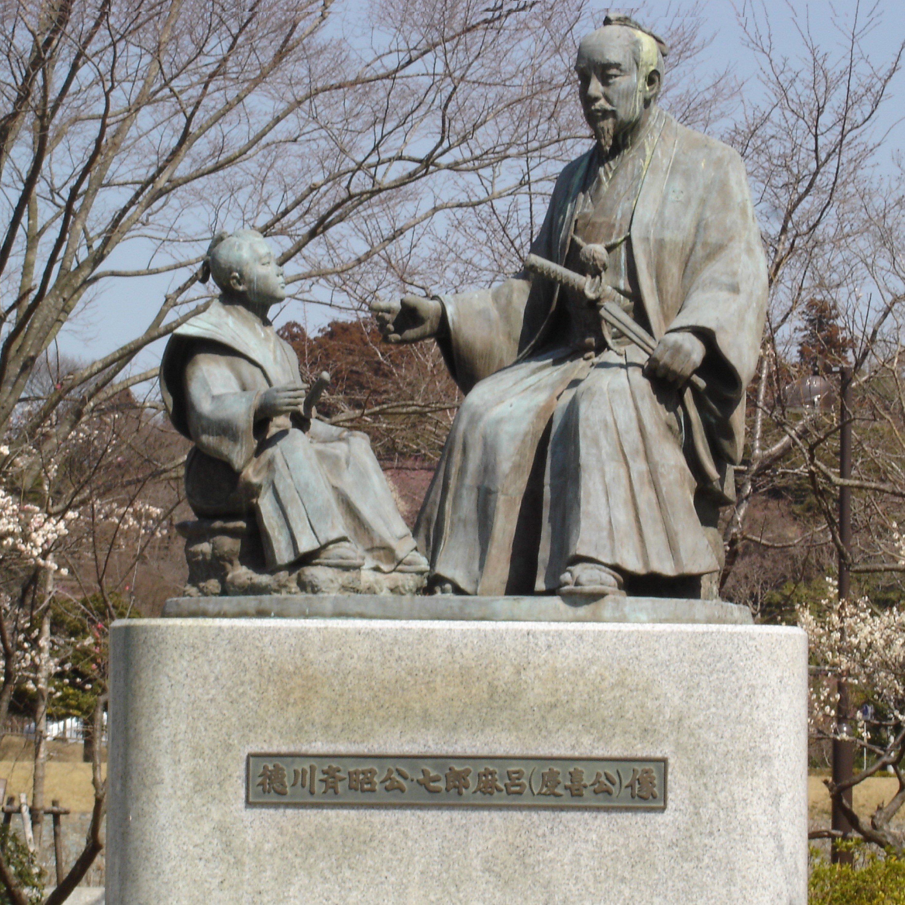 Monument of Tokugawa Nariaki and his 7th son Yoshinobu at Mito-Park, Japan